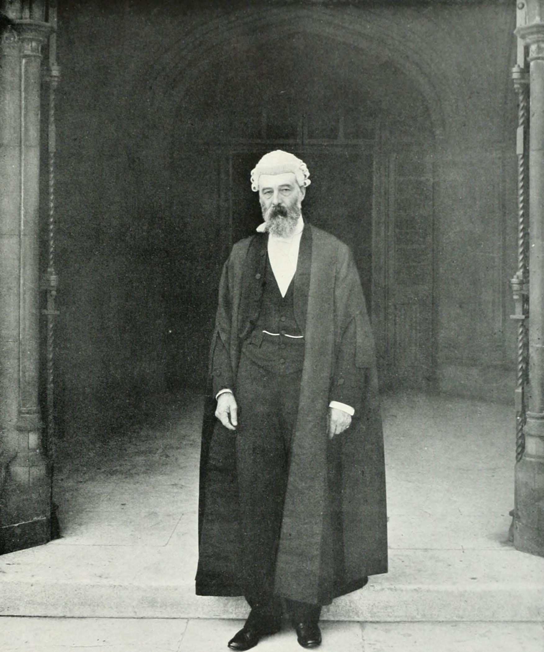 Sir Courtenay Peregrine Ilbert (1841-1924), Clerk of the House of Commons.